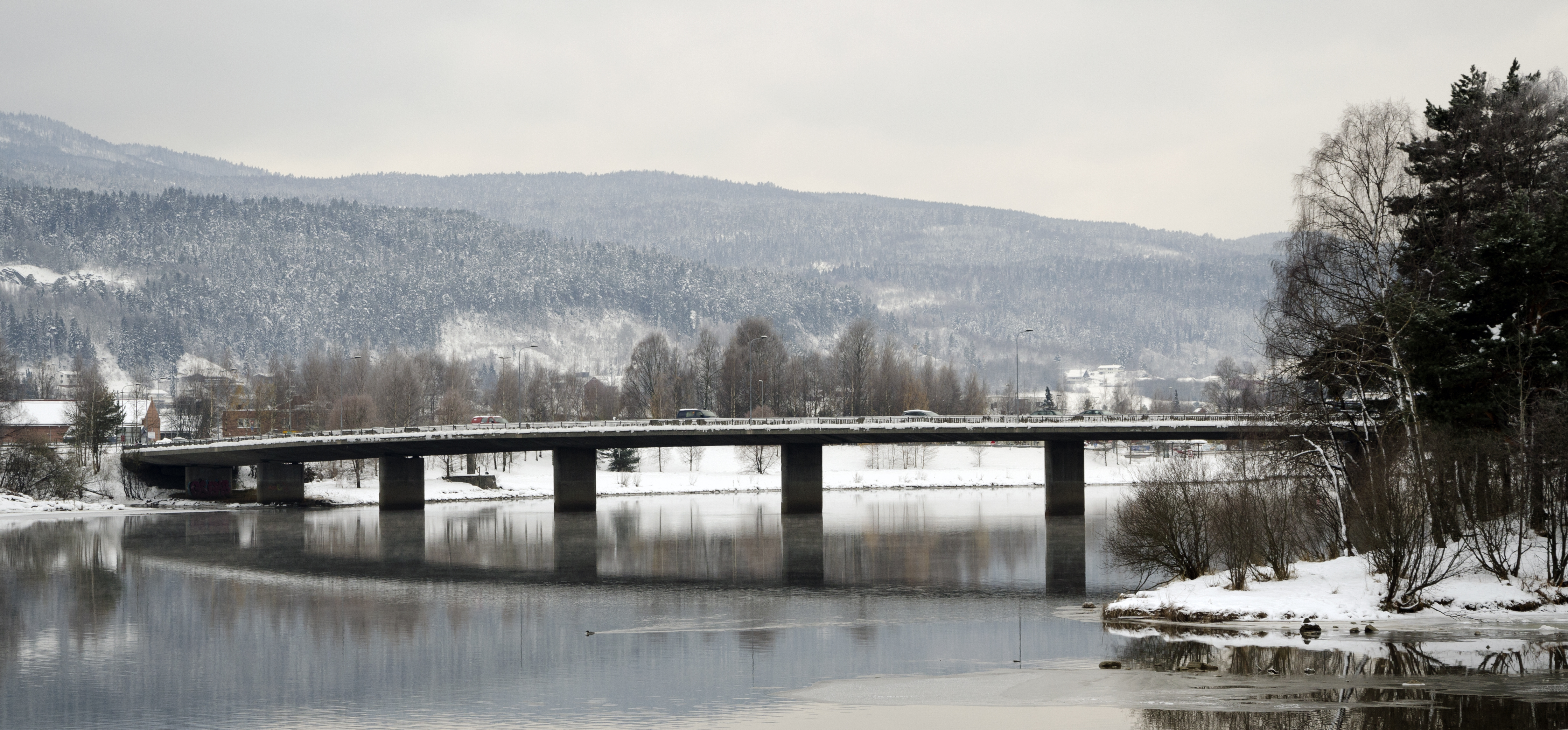 Lower Eiker bridge, crossing the Drammen river and connecting Krokstadelva with Mjøndalen, seen from the cemetery to the north.